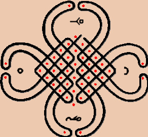 This lusona ideograph illustrates the oral story of the beginning of the world among Tchokwe people : "At one time the Sun went to pay his respects to God. He walked and walked until he found the path which led to God. He presented himself to God, who gave him a cock and said to him: 'See me in the morning before you leave.' In the morning the cock crowed and woke up the Sun, who then went to see God. God said: 'I heard the cock crow, the one I gave you for supper. You may keep him, but you must return every morning.' This is why the Sun encircles the earth and appears every morning. The Moon also went to visit God, was given a cock, who also woke him up in the morning ... So God said: 'I see that you also did not eat the cock I gave you for supper. That is all right. But come back to see me every twenty-eight days.'... And man in turn went to see God, and was given a cock. But he was very hungry after his long voyage and ate part of the cock for supper and kept the rest for his return trip. The next morning the Sun was already high in the sky when our man awoke. He quickly ate the remains of the cock and hurried to his divine host. God said to him with a smile: 'What about the cock I gave you yesterday? I did not hear him crow this morning.' The man became fearful. 'I was very hungry and ate him.' ... 'That is all right,' said God,'but listen: you know that Sun and Moon have been here, but neither of them killed the cock I gave them. That is why they themselves will never die. But you killed yours, and so you must die as he did. But at your death you must return here.' And so it is." The top figure is God, the bottom is man, on the left is the Sun and on the right is the Moon. The path is the path that leads to God."(Bastin, 1961, page 39)